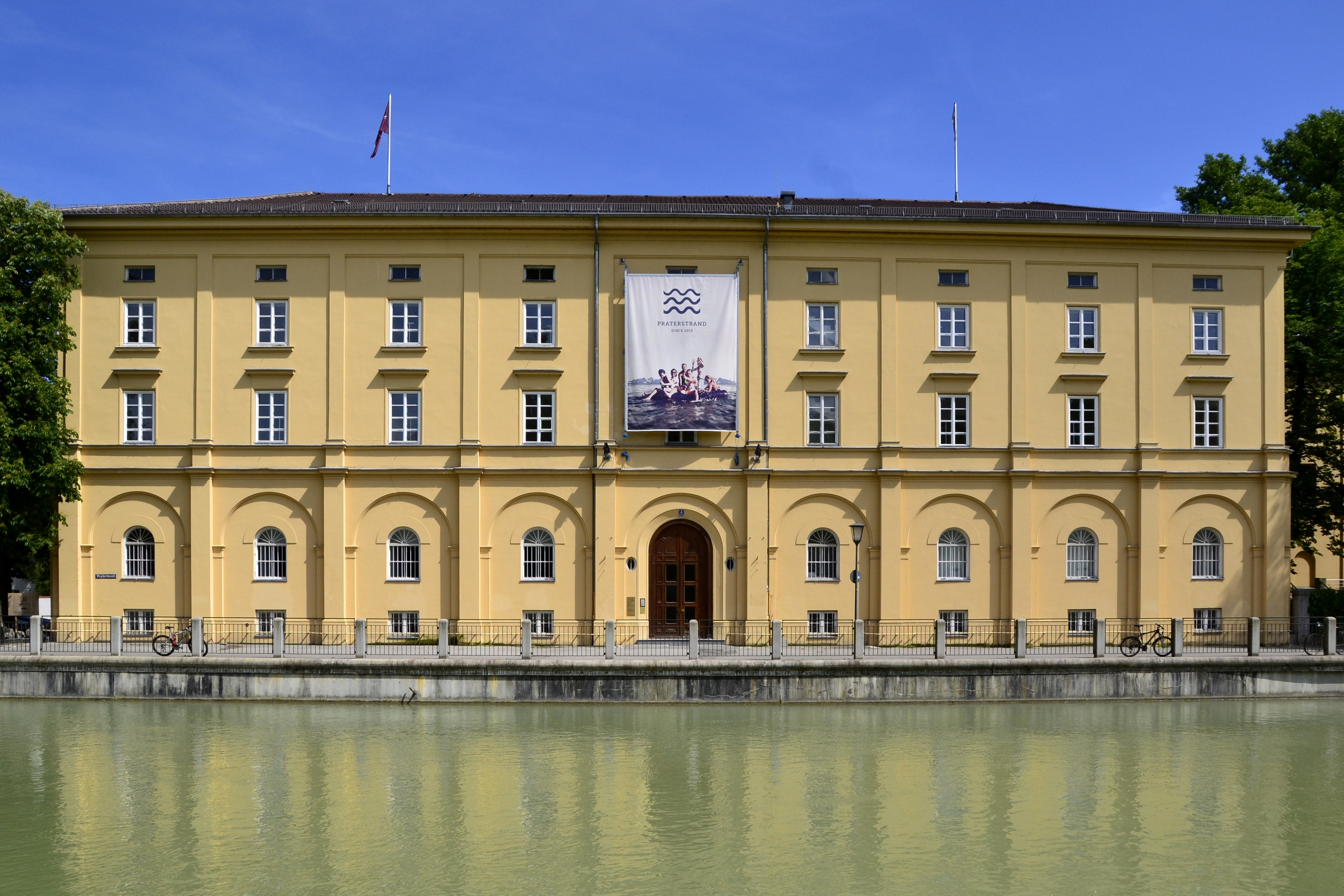 The cultural heritage monument Praterinsel 3/4 in Munich-Lehel.